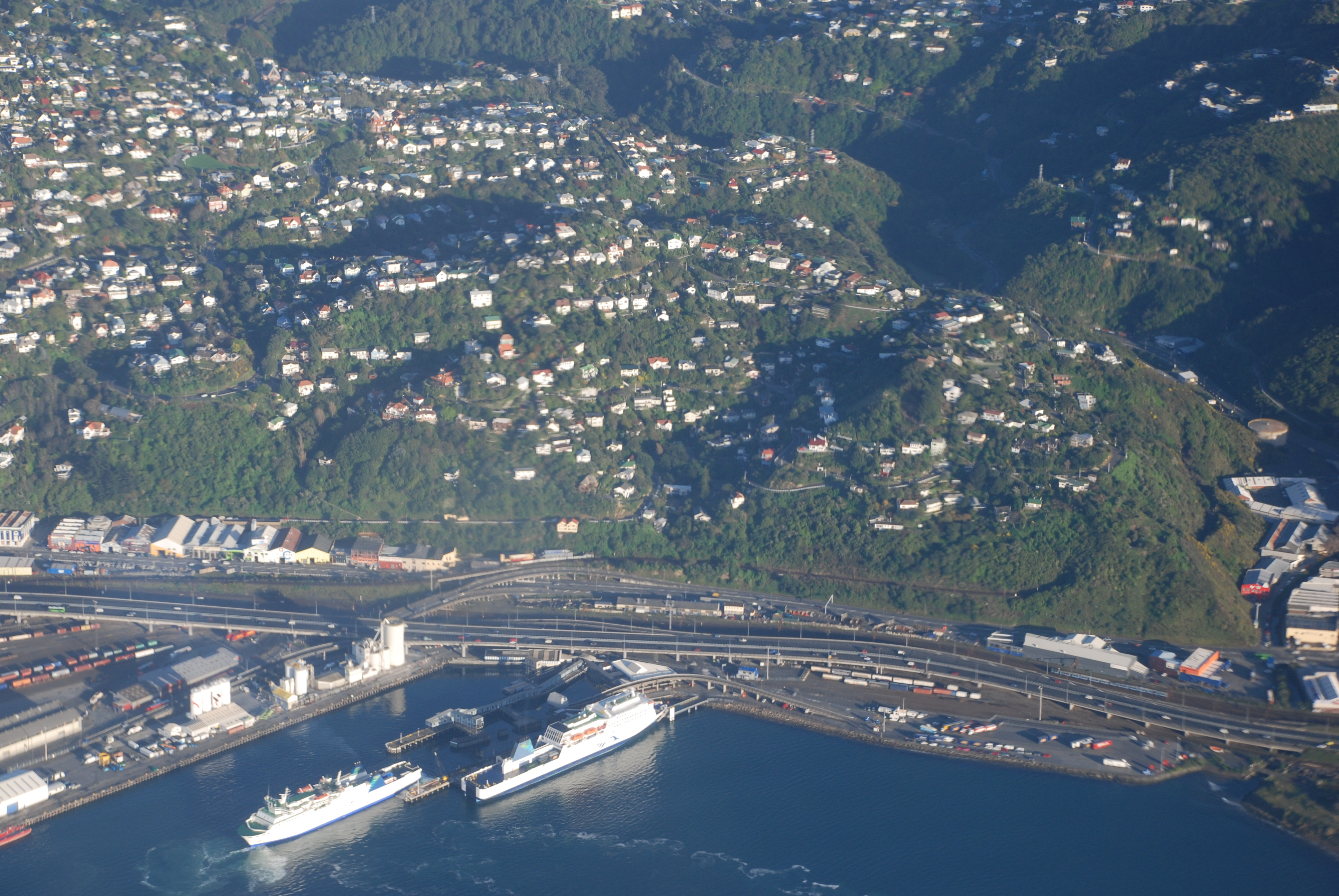 Kaiwharawhara and Wadestown, Wellington, New Zealand, 28 September 2007